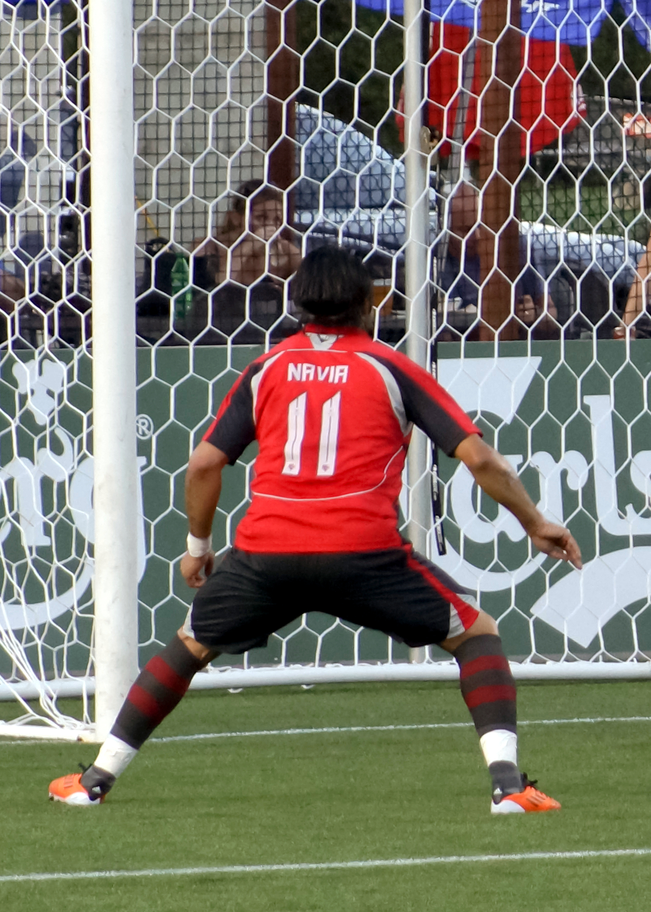 Reinaldo Navia playing for Atlanta Silverbacks on April 28, 2012